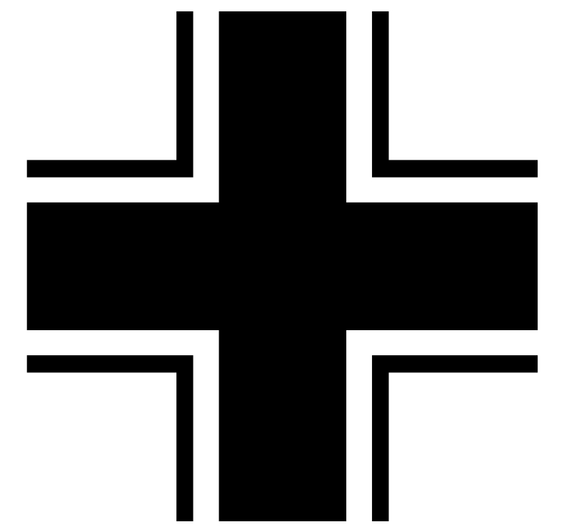 The style of Balkenkreuz used by the Third Reich's Luftwaffe on the upper surfaces of aircraft wings, drawn with the official proportions specified by the Reich Air Ministry just before the outbreak of World War II in 1939. Such dimensions were also the basis of the "low-visibility" version of this marking used late in World War II by the Luftwaffe, using only the "flanks" of the marking shown in white for this regulation example.